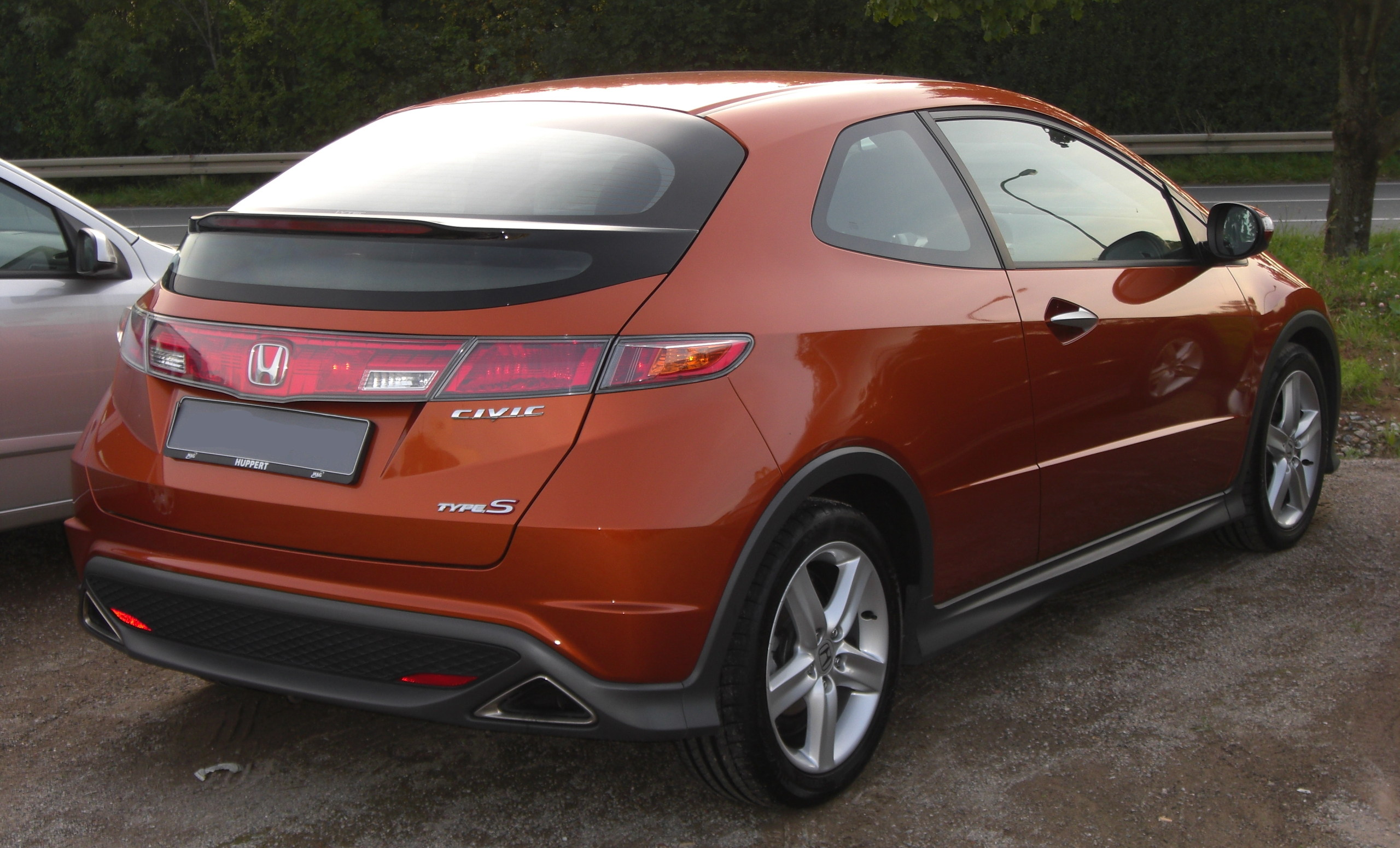 Honda Civic Type S